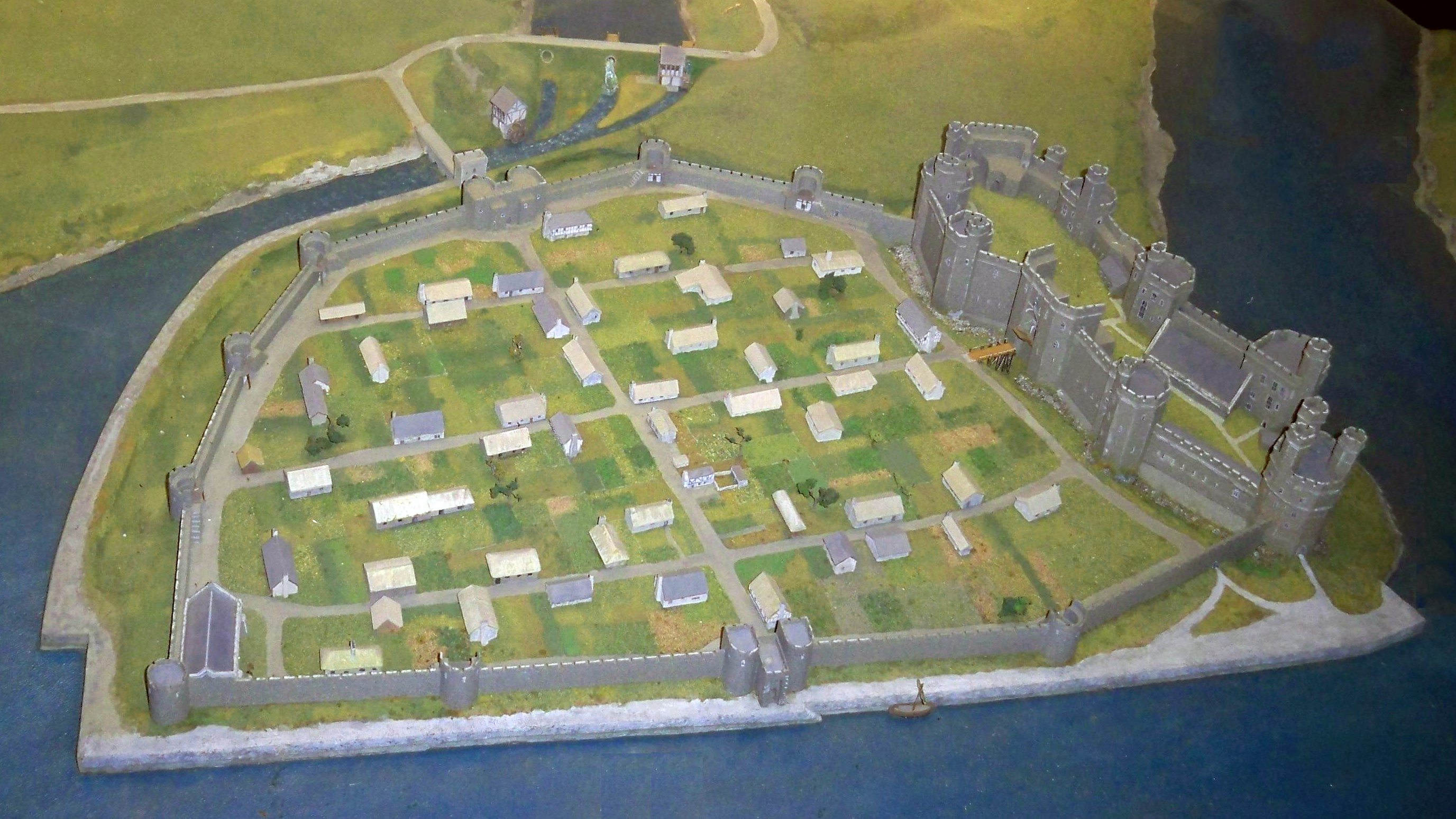 Caernarfon Castle and Town, edited and retouched